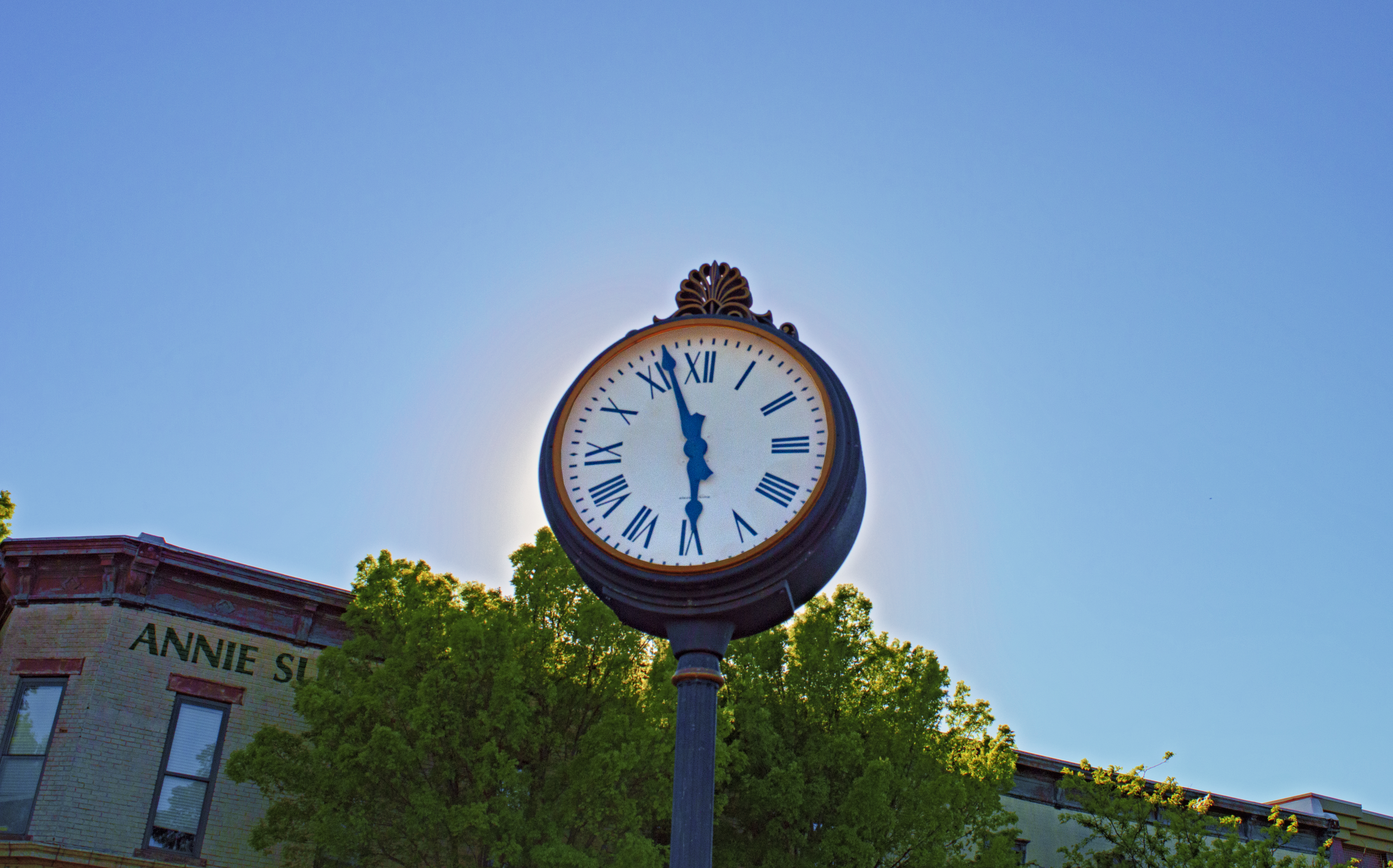 Clock in downtown Lee's Summit, Missouri, USA